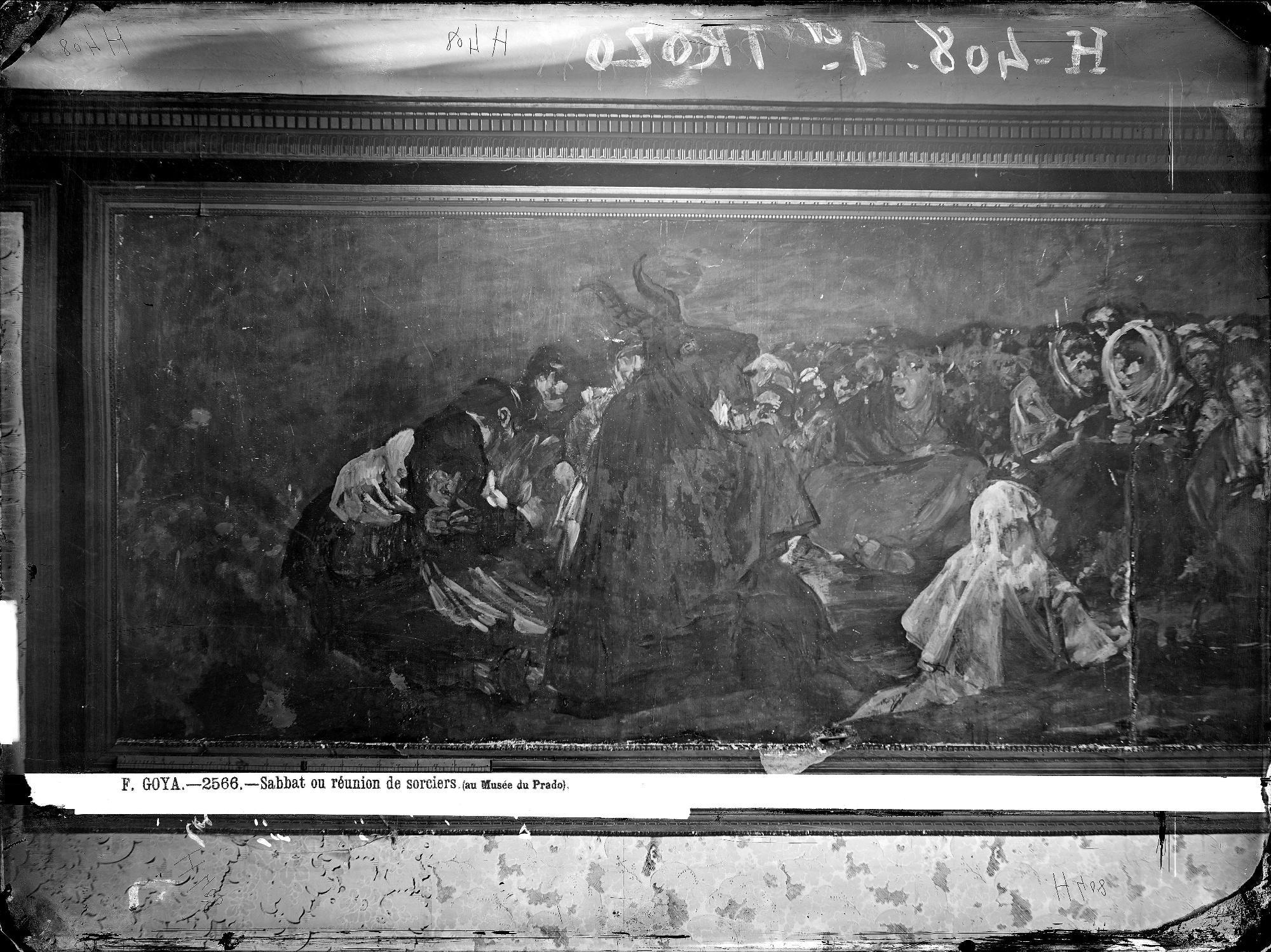 "El Aquelarre", in 1874, at the Quinta de Goya. Photo by J. Laurent, on the wall of the old house of Goya. Series of Black Paintings, before being transferred to canvas. The image was obtained by scanning the original glass negative, wet collodion, format 27 x 36 centimeters, which is preserved in the Archives Ruiz Vernacci. IPCE Photo Library. Madrid. Possibly, Laurent photographed "El Aquelarre" with electric light.